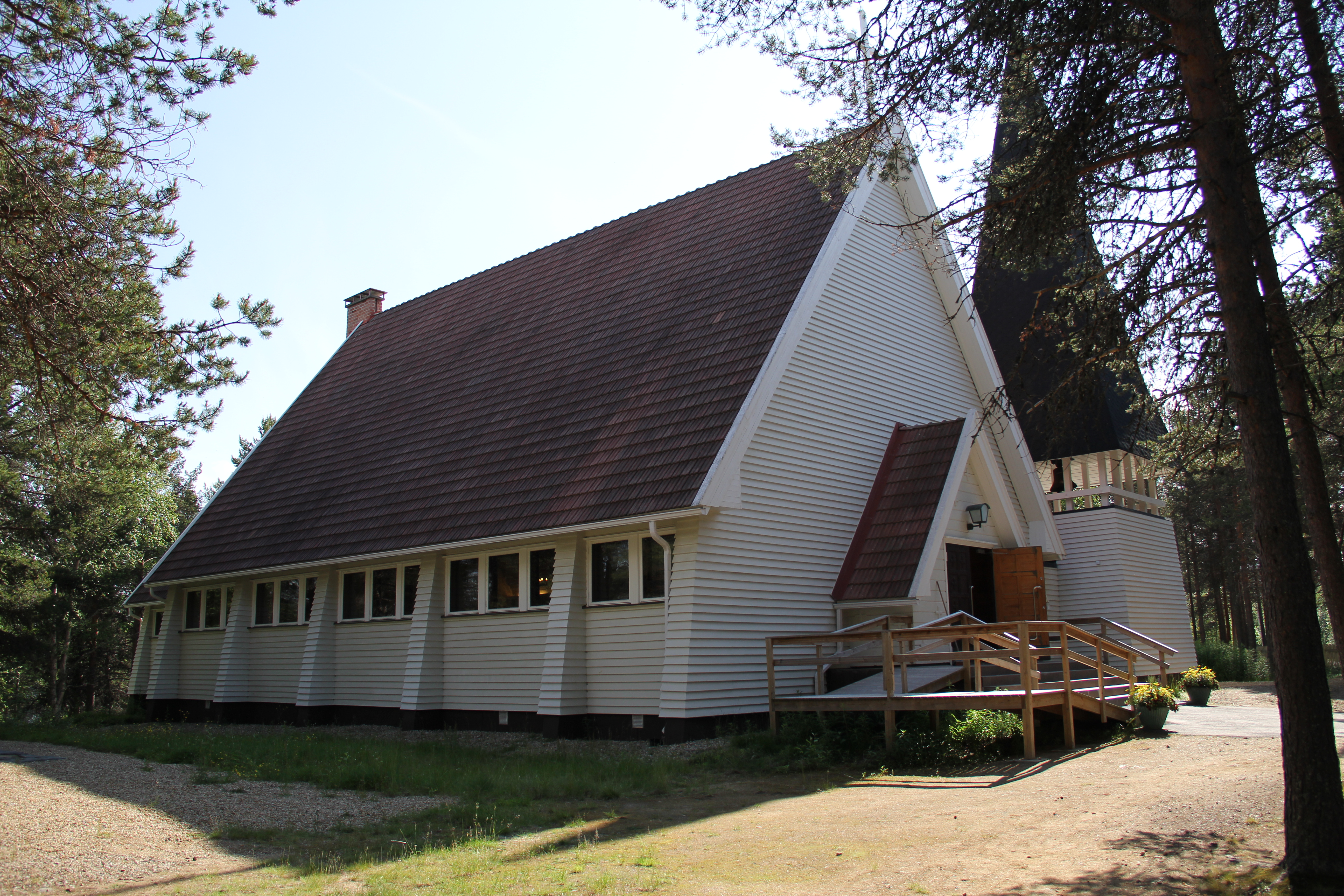 Inari church, Inari, Finland.